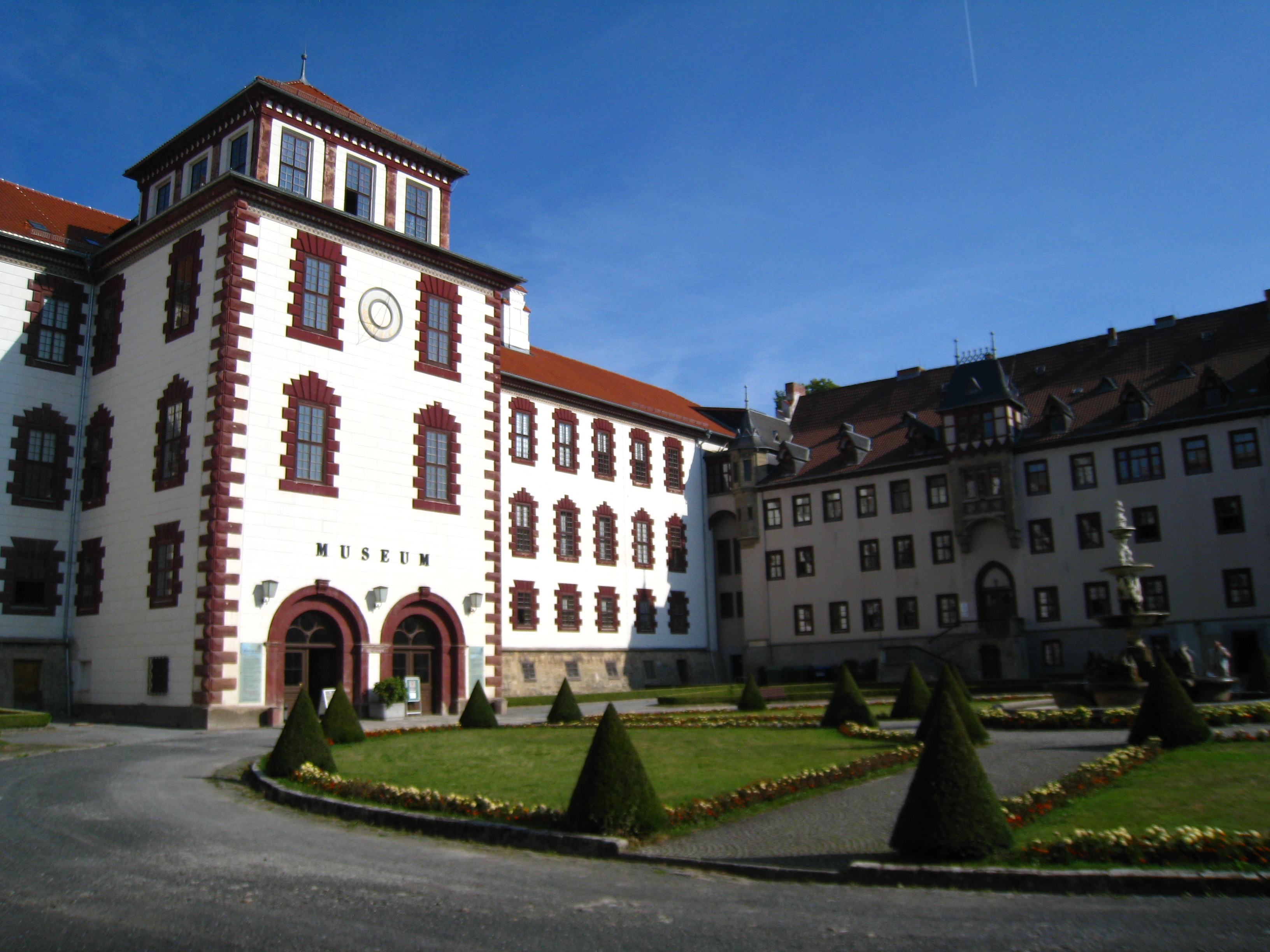 Inner courtyard in Schlos Elisabethburg, Meiningen, Germany